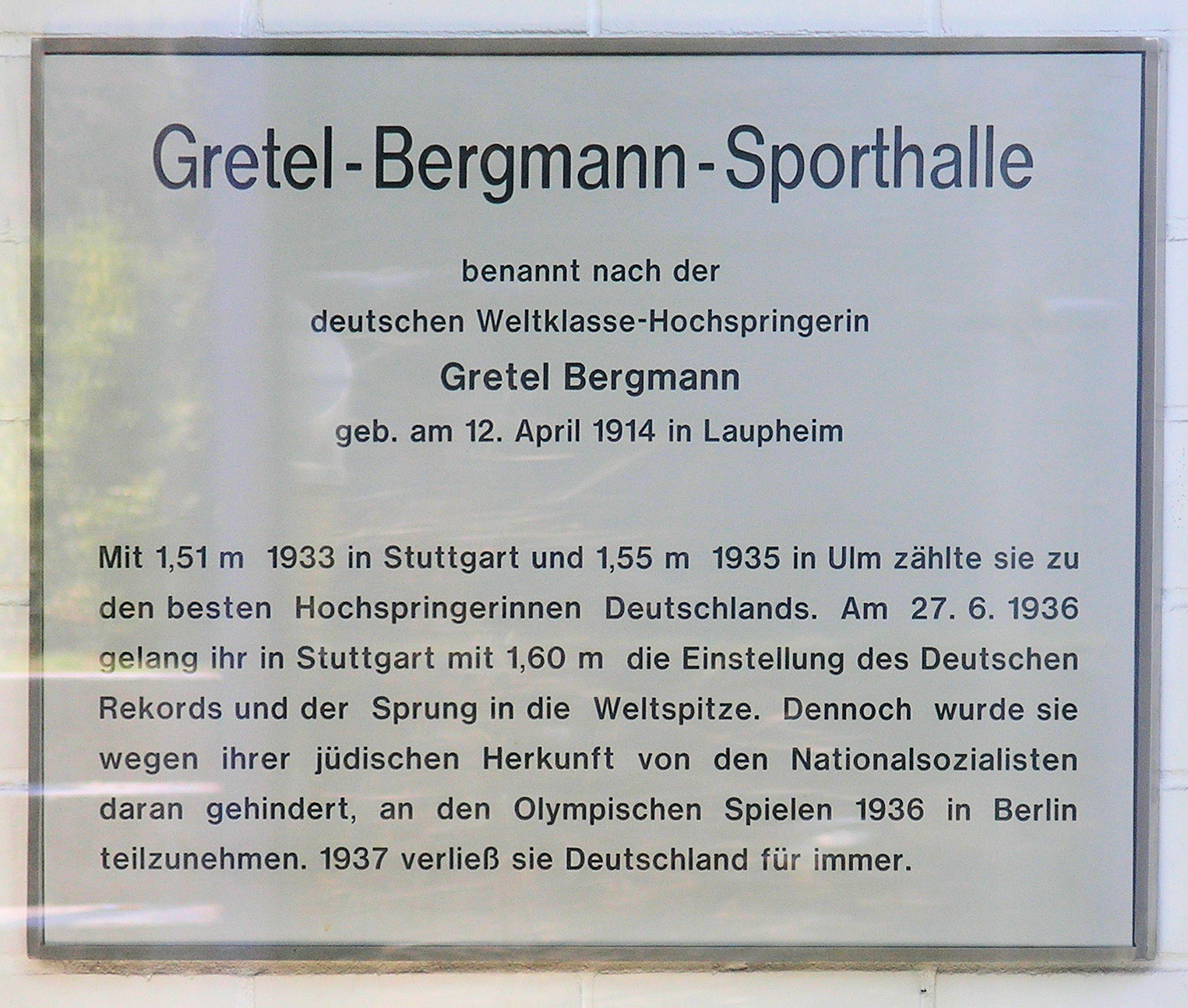 Memorial plaque, Gretel Bergmann, Rudolstädter Straße 77, Berlin-Wilmersdorf, Germany Koordinate:52°29′6″N 13°18′22″E / 52.485°N 13.30611°E